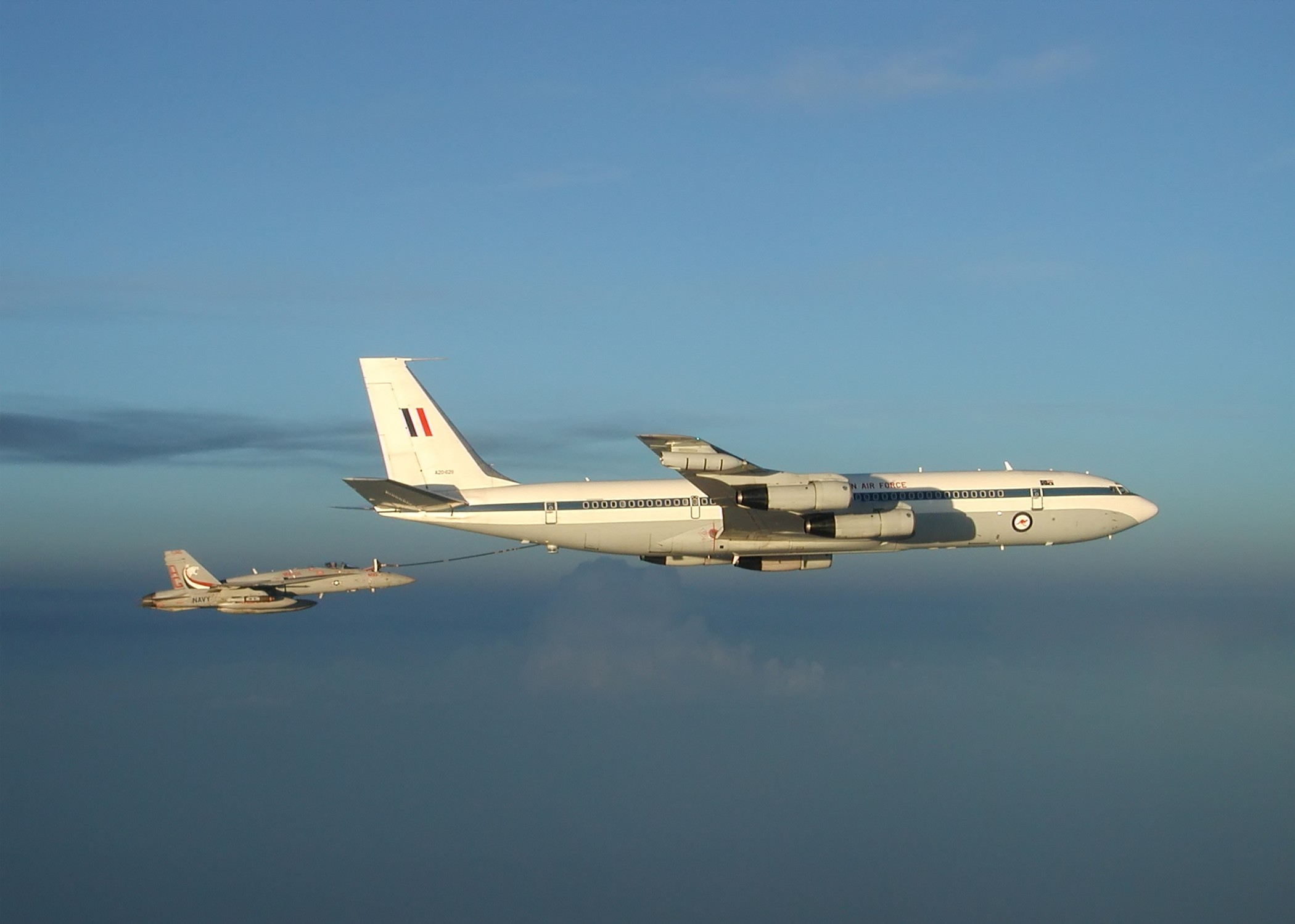 A U.S. Navy McDonnell Douglas F/A-18C Hornet assigned to the Wildcats of Strike Fighter Squadron VFA-131 from the aircraft carrier USS John F. Kennedy (CV-67) performs an inflight refueling evolution with a Royal Australian Air Force EB-707. The JFK and her embarked Carrier Air Wing Seven (CVW-7) were conducting combat missions in support of Operation Enduring Freedom.